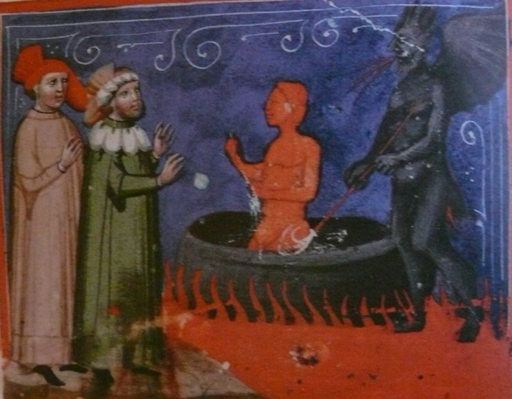 Dante's Inferno